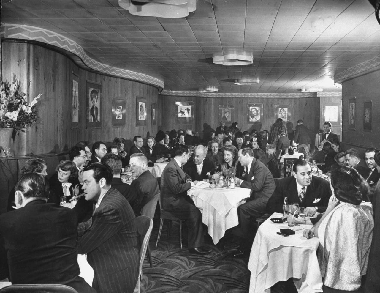 Photograph of the Cub Room of the Stork Club, a famous New York City nightclub. From left, Orson Welles (with cigar), Margaret Sullavan with husband Leland Hayward, owner Sherman Billingsley (center table at far right), Morton Downey (right foreground).